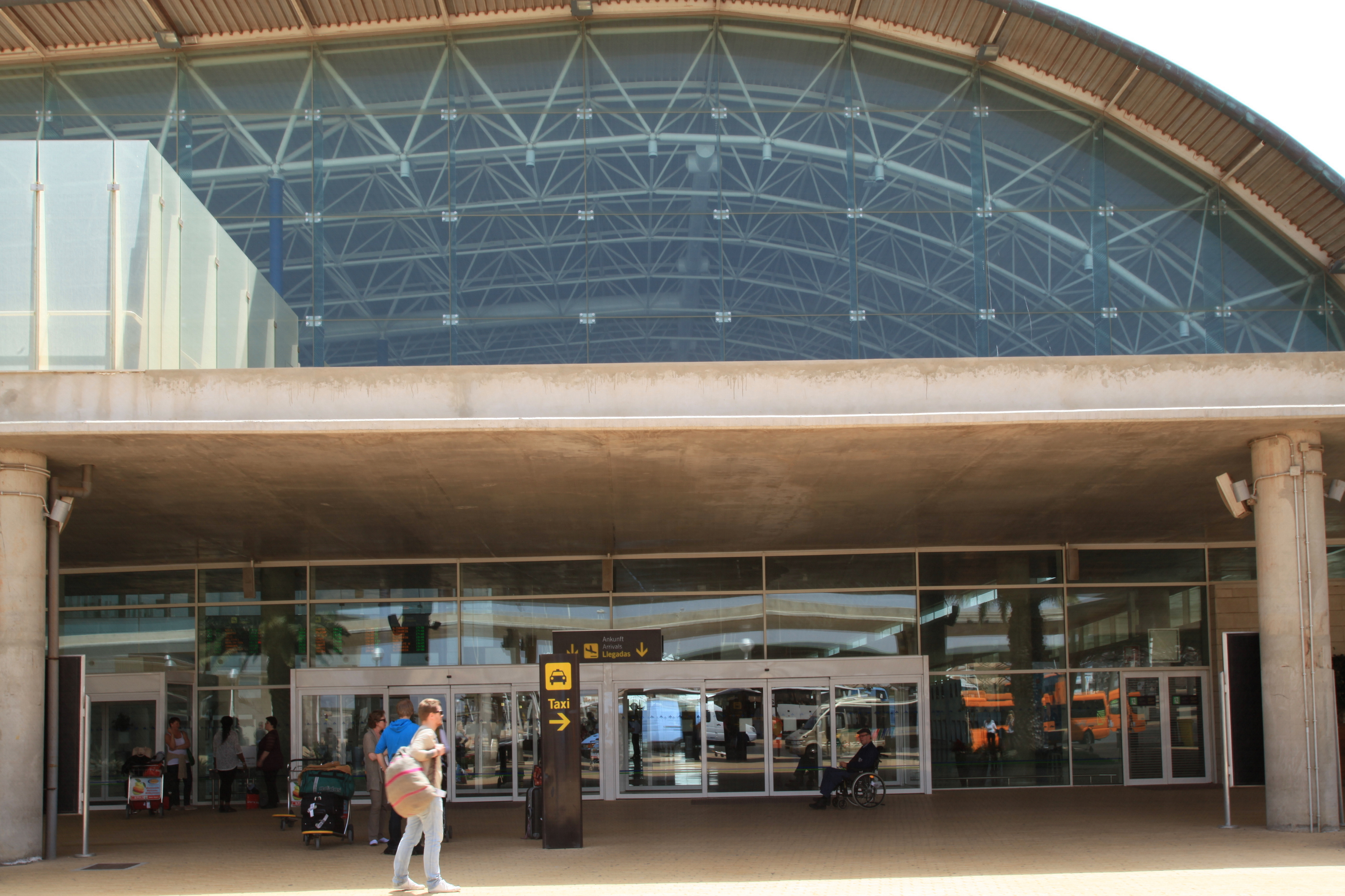 Airport in Puerto del Rosario, Fuerteventura, Canary Islands